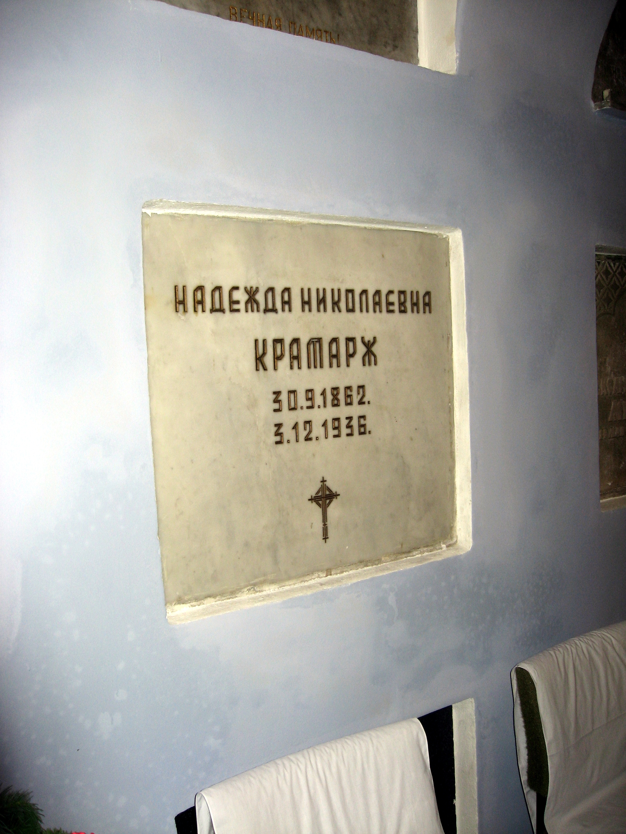 Burial site of Naděžda N. Kramářová, wife of Karel Kramář in crypt of the Dormition church at Olšany Cemetery, Prague, Czech Republic